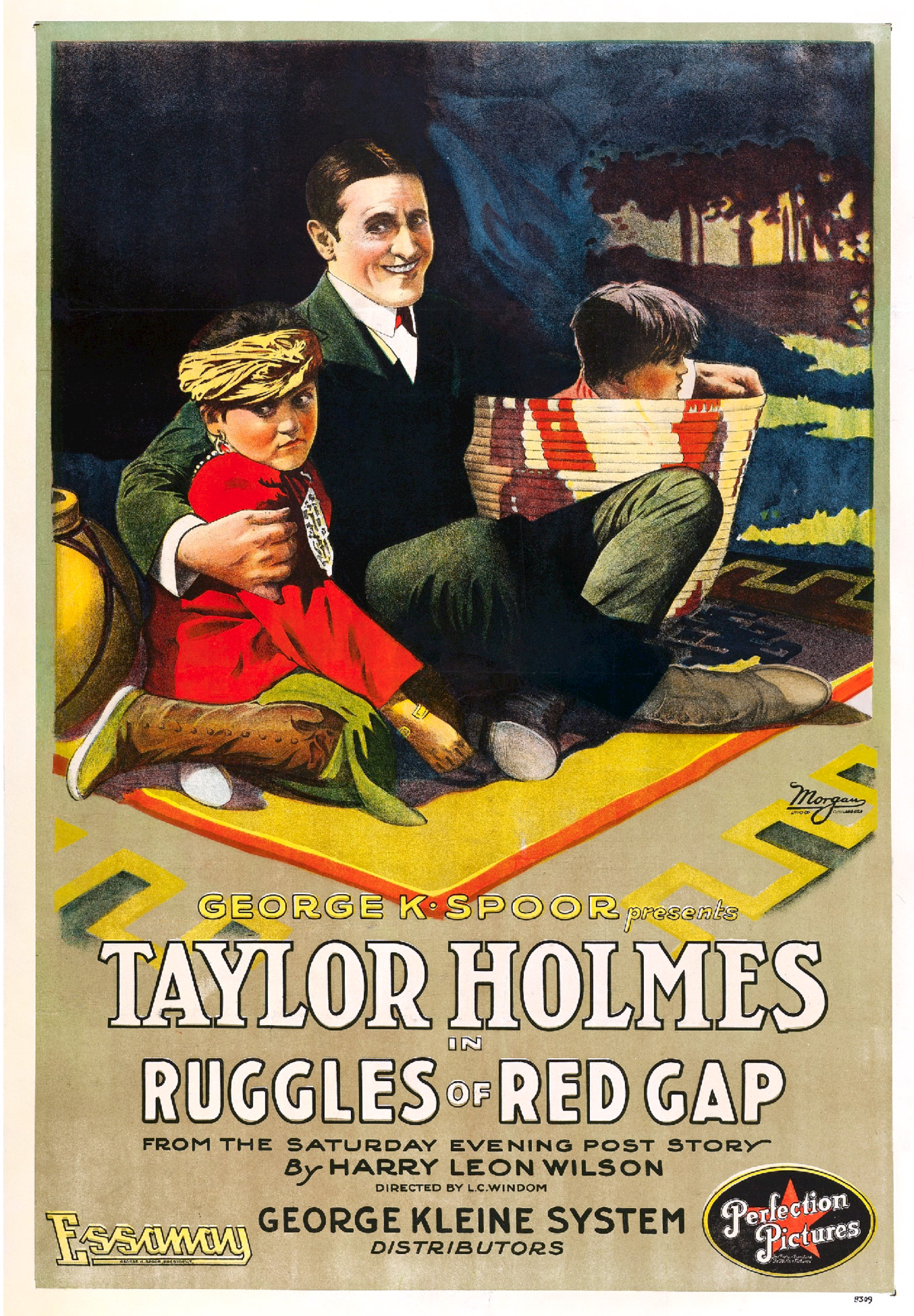 Poster for the American western comedy film Ruggles of Red Gap (1918).